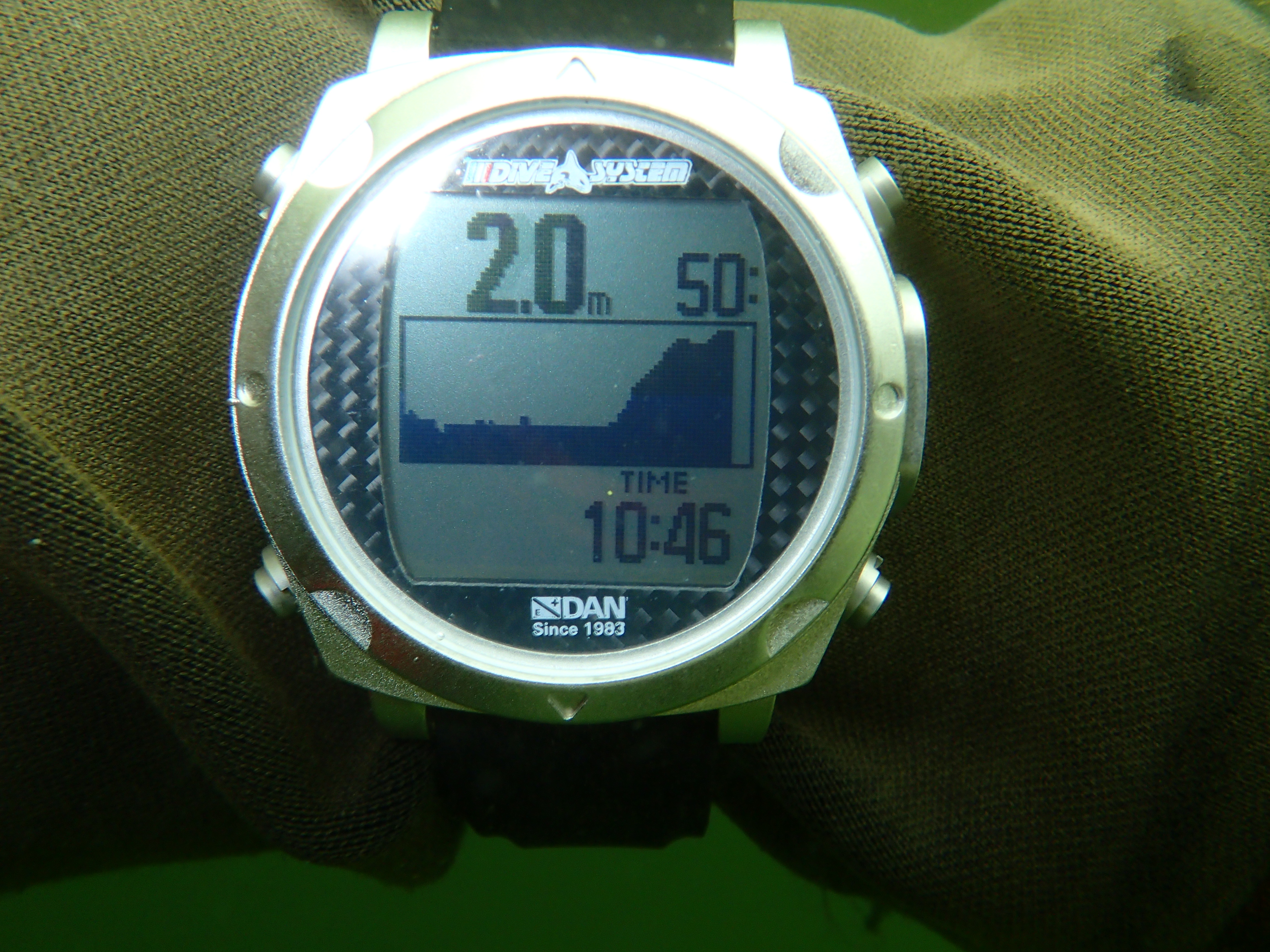 iDive DAN dive computer dive log display